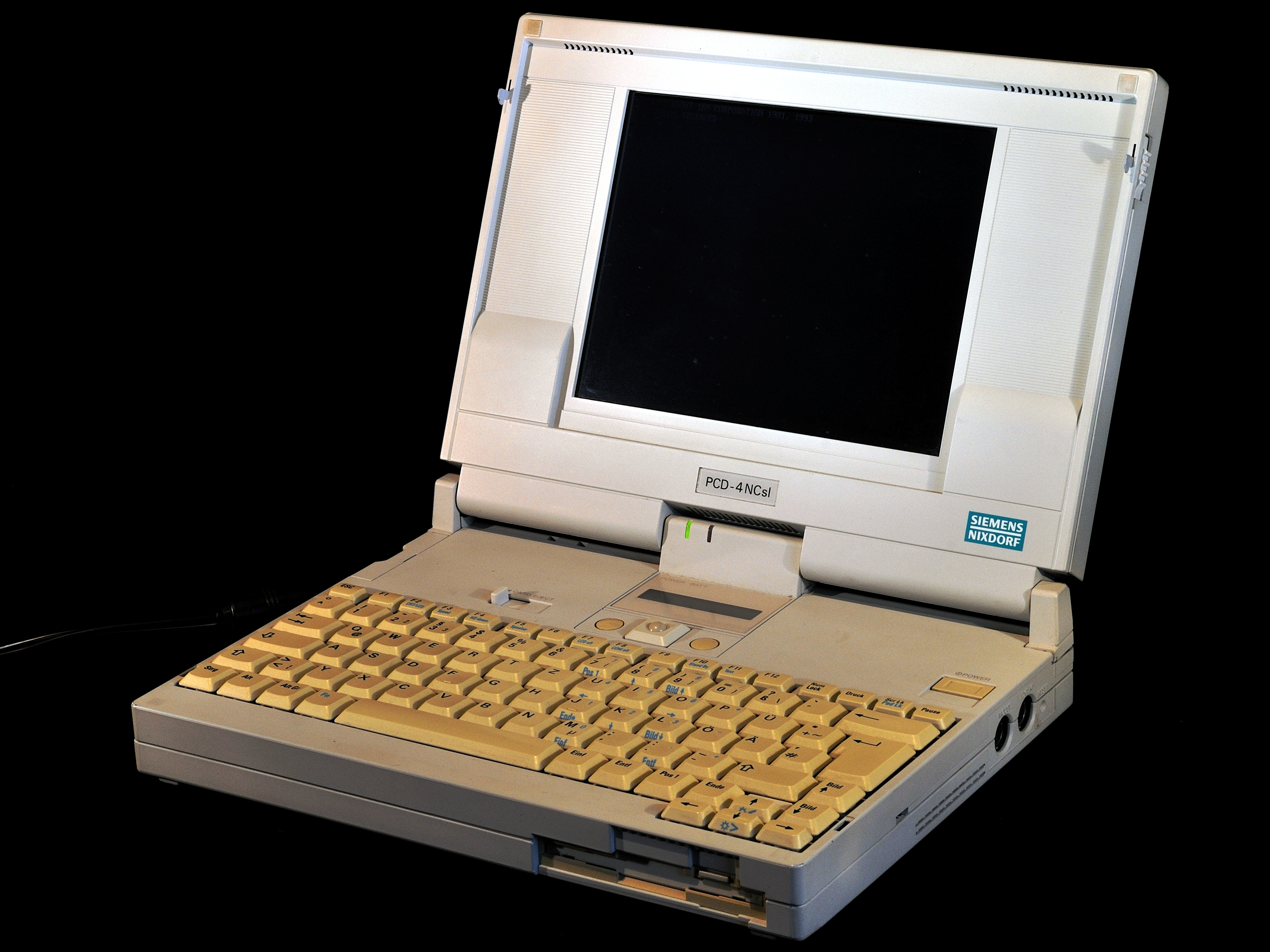 1993 Laptop PCD-4NCsl by Siemens-Sixdorf